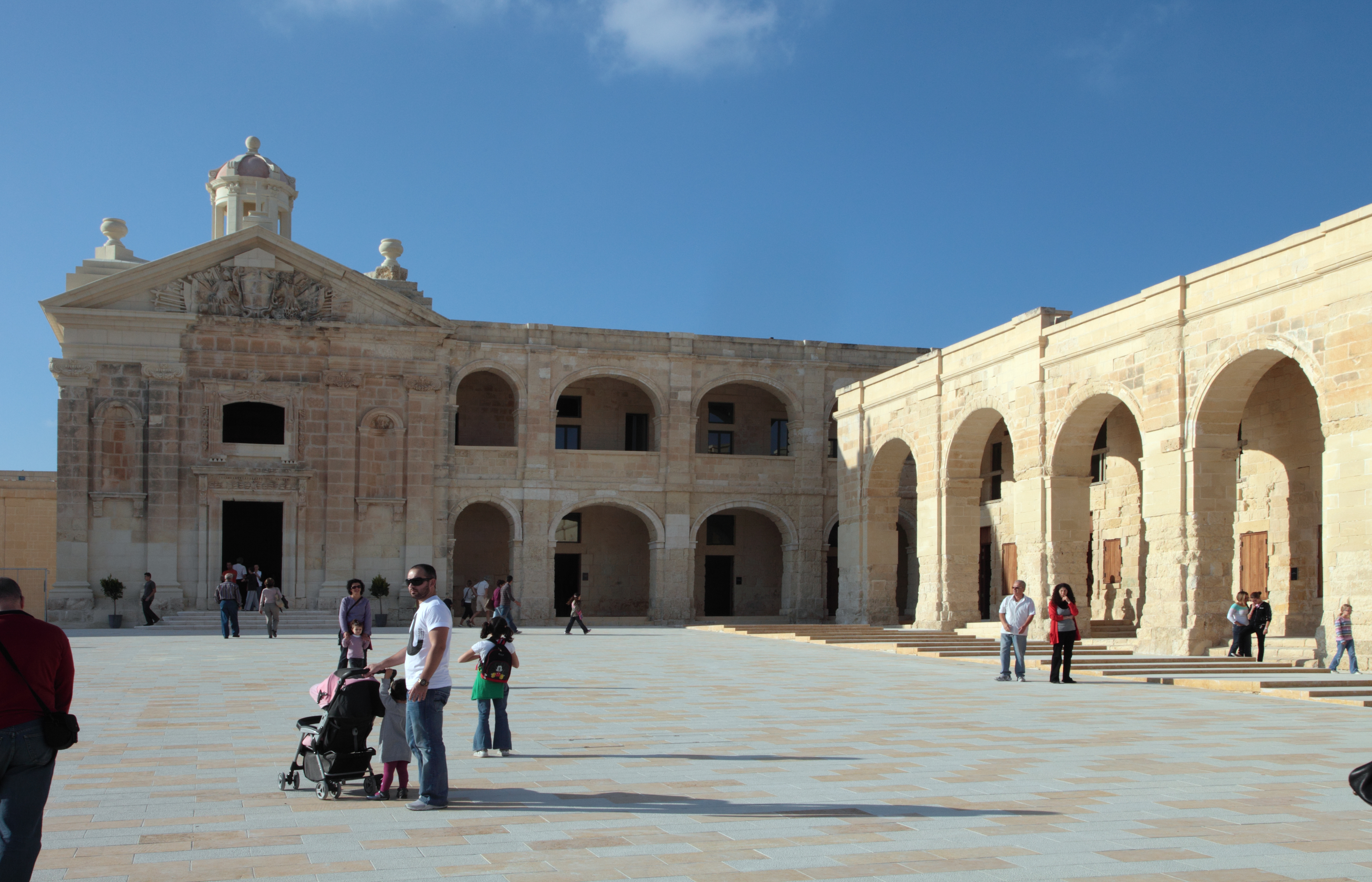 Manoel Island, Fort Manoel, square with chapel